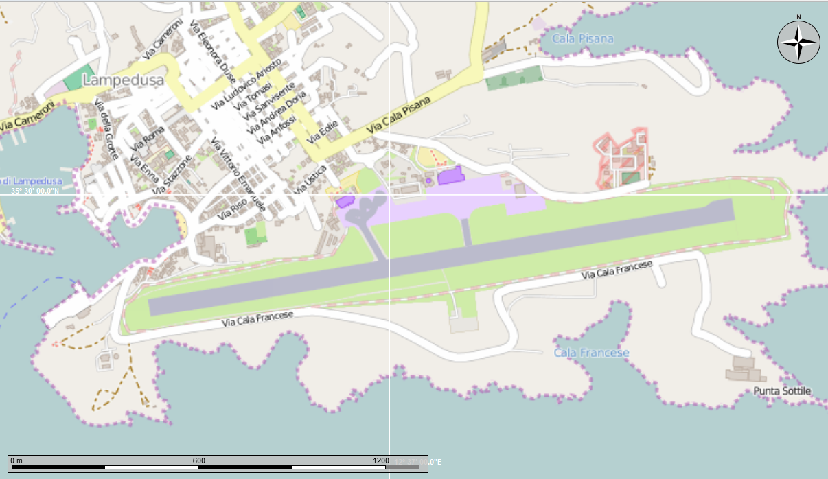 Open Streetmap of the Lampedusa Airport. From the Marble program.